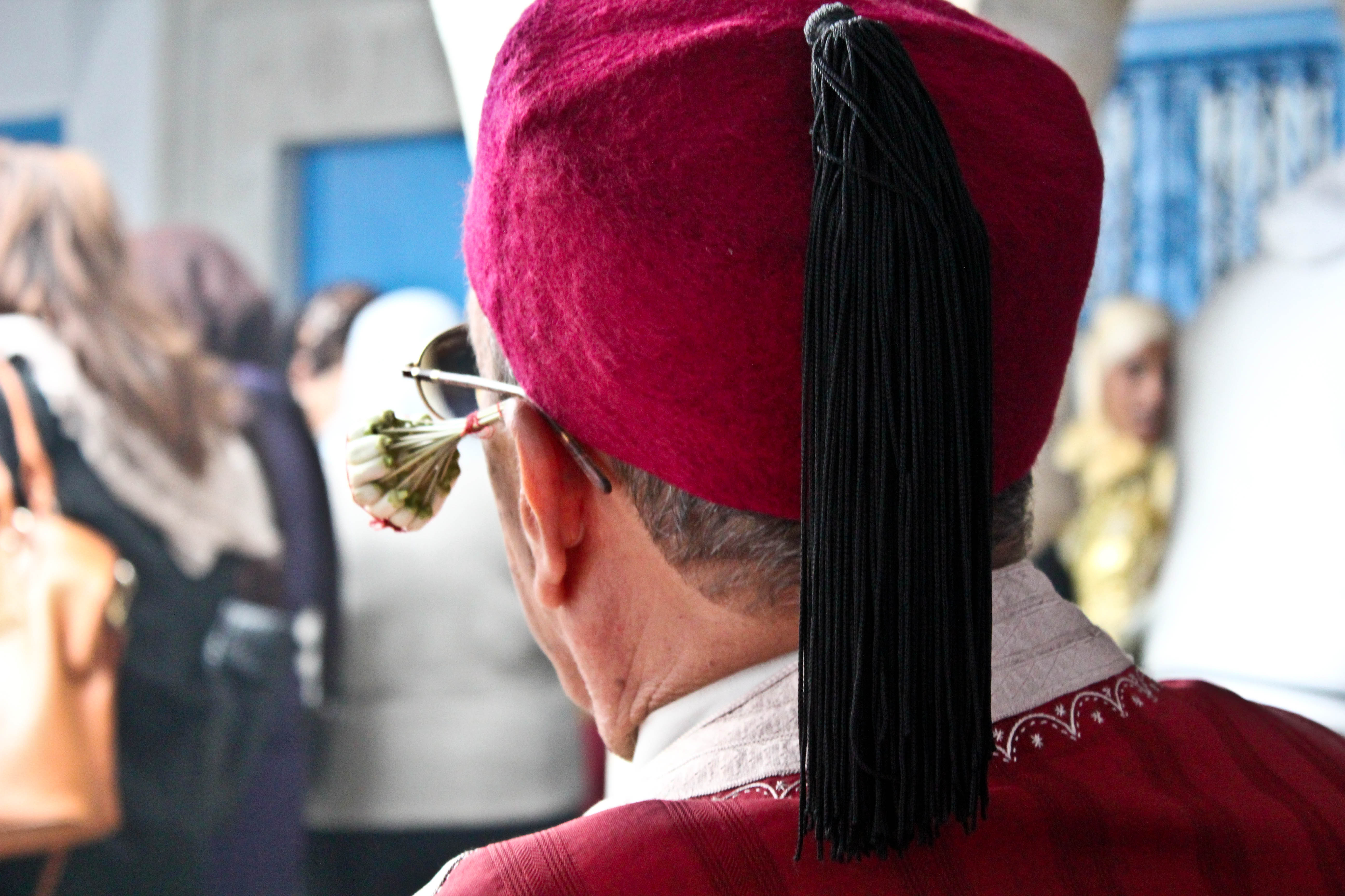 This is an image of Cultural Fashion or Adornment from Tunisia